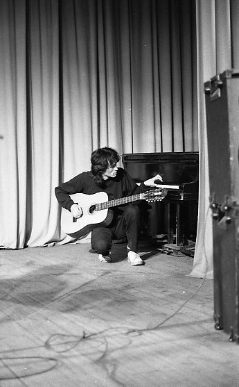 Viktor Tsoi tuning his guitar in 1986 during a acoustic-style concert in Leningrad.